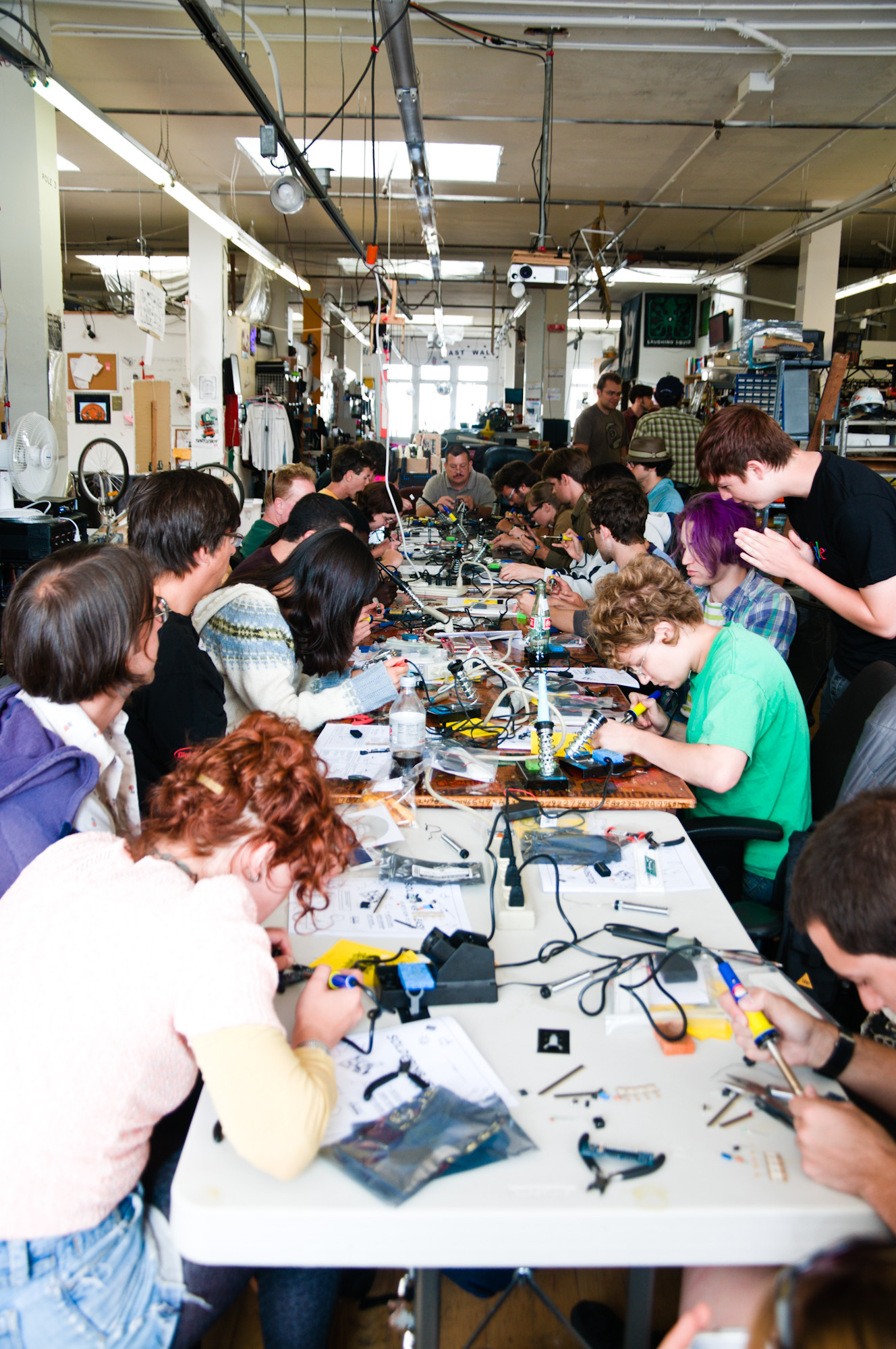 Noisebridge Arduinos For Total Newbies workshop July-2011